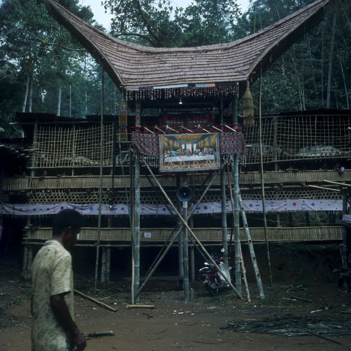 Dead body of the Christian village head in a bier, decorated with an image of Leonardo da Vinci's The Last Supper, at a death feast of the Toraja